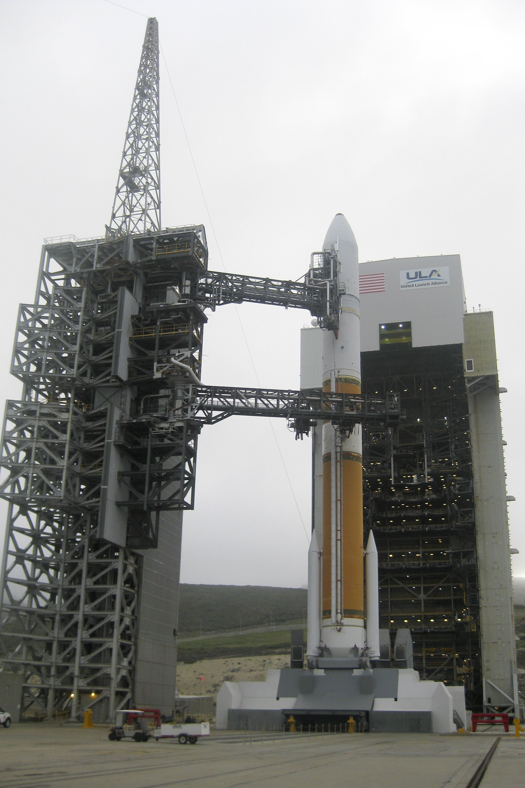 Delta IV MST rollback The mobile service tower rolls back from the United Launch Alliance Delta IV Medium+ (5,2) rocket on Space Launch Complex 6 here Tuesday, April 3, 2012. This is the Department of Defense's first-ever launch of a Delta IV configured with a 5-meter payload fairing and two solid rocket motors.